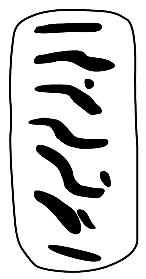 Drawing of palatal plication of Gudeodiscus messageri raheemi (outer view). Locality: 11L06, Laos, Luang Prabang Province, ca. 18 km SE of Muang Xiang Ngeun, on the left side of Nam Khan, limestone, black soil in limestone pockets, clay, under rocks and logs in old forest, 455 m a.s.l., 19°40.931'N, 102°19.743'E, leg. A. Abdou & I.V. Muratov, 30.10.2006, MNHN 2012-27054/38 shells (some of them are broken/juvenile) + anatomically examined specimen.